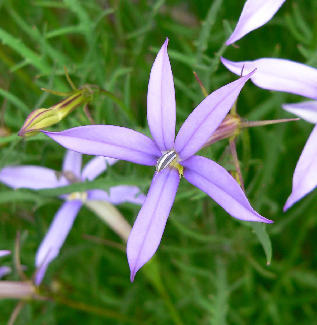 Photo of Isotoma axillaris (syn. Laurentia axillaris) at the University of California Botanical Garden